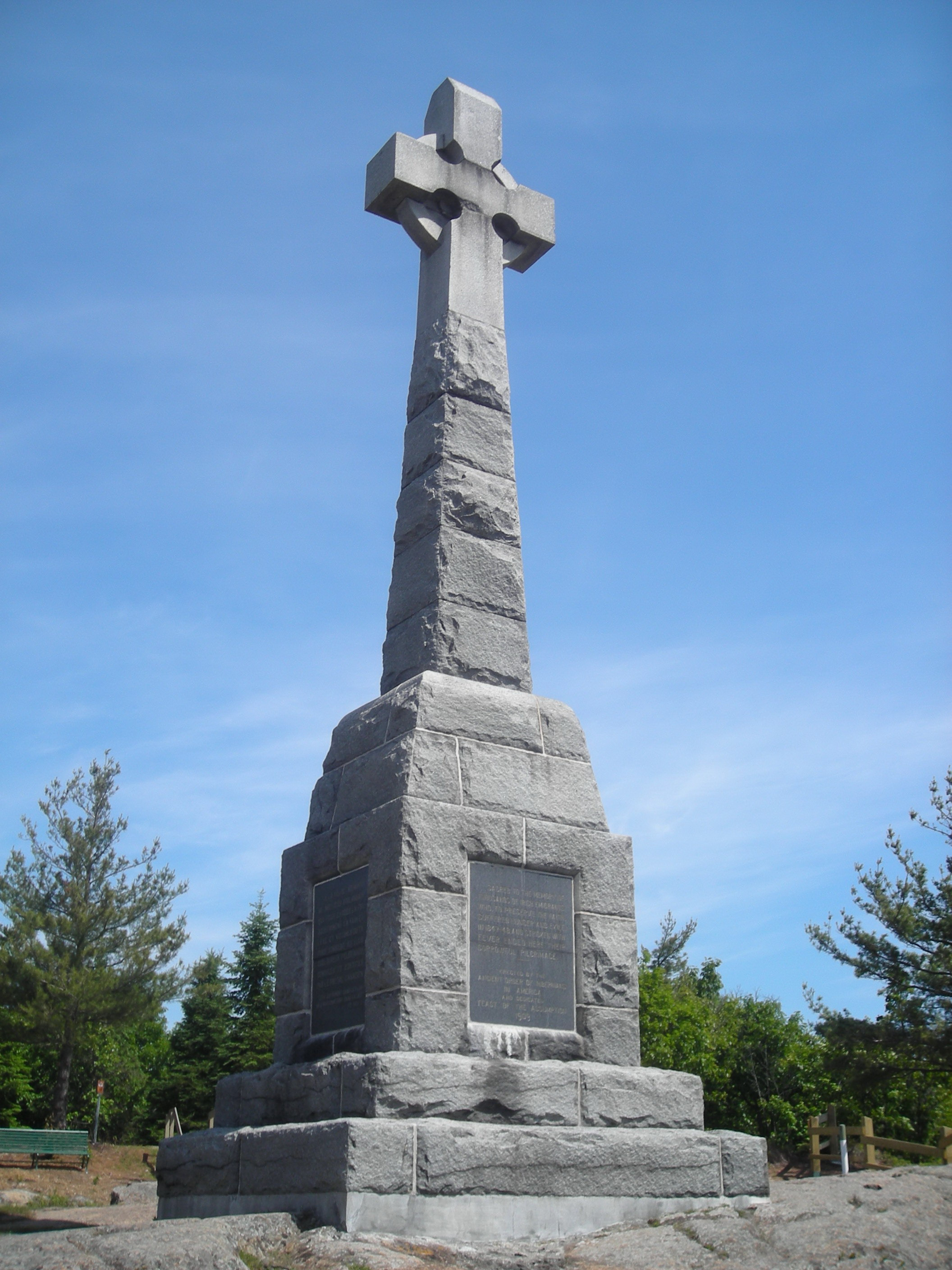 A memorial to all peoples who died at Grosse-île.